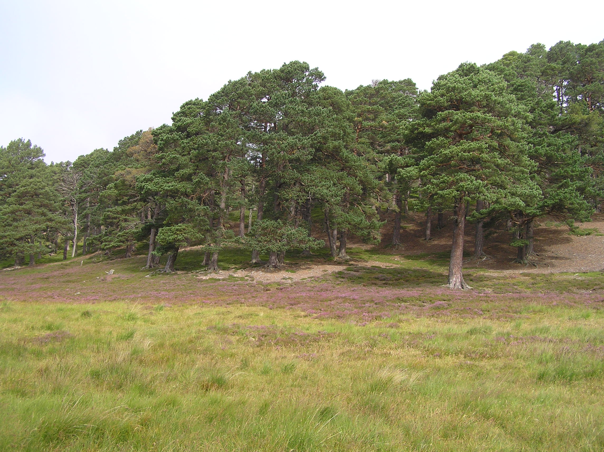 This photograph shows Scots Pines on the north bank of the Lui Beg Burn at Lui Beg, Mar Lodge Estate, Aberdeenshire, Scotland.